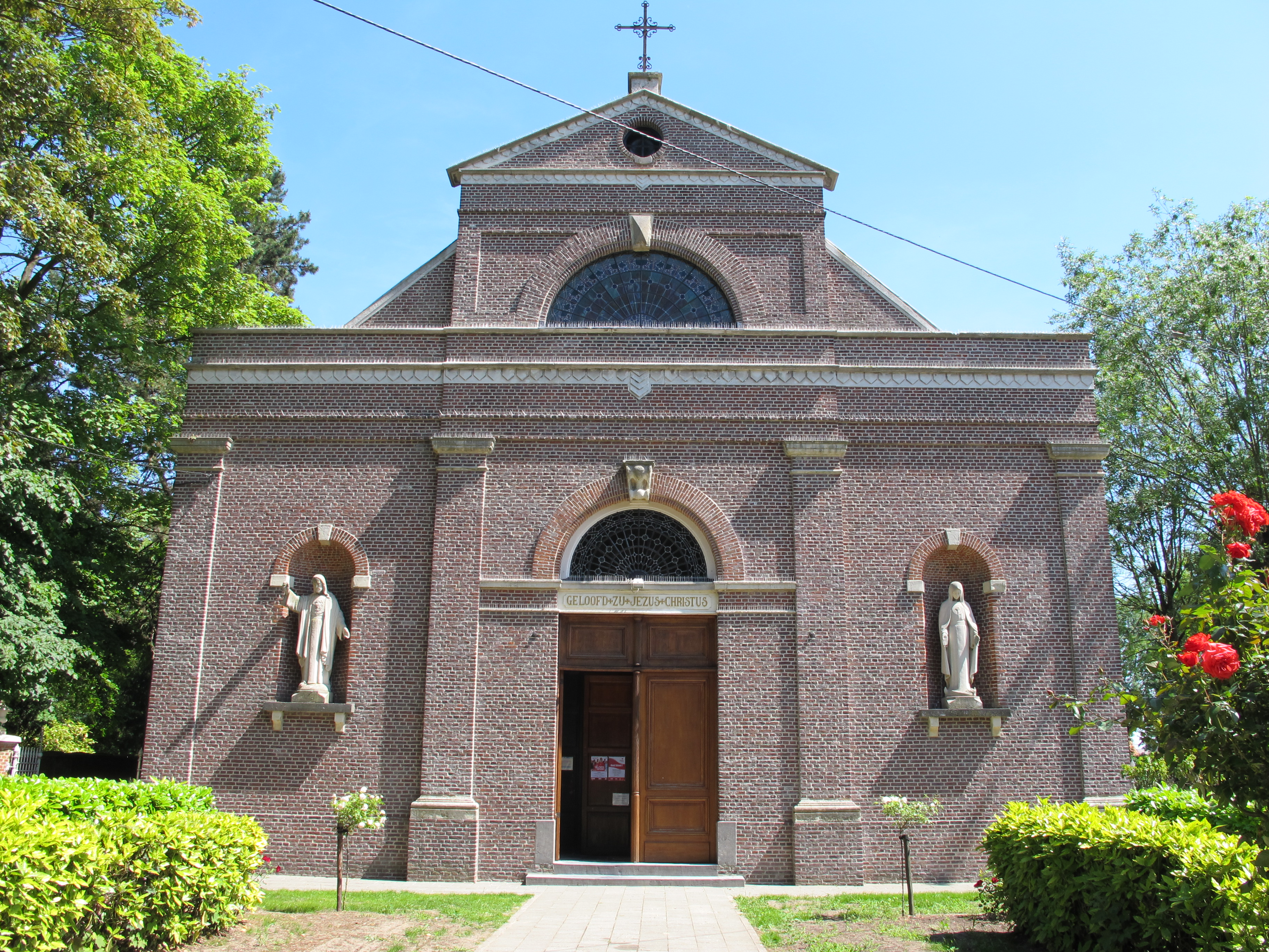 Lozer church in Auwegem, Oost-Vlaanderen